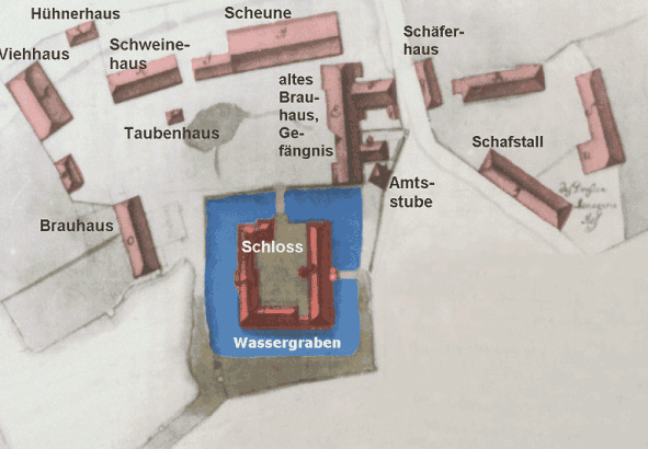 Computer-enhanced sketch of Fallersleben Castle and its outbuildings around 1765. Lower Saxony, Germany. Enhancements by original uploader, Axel Hindemith.